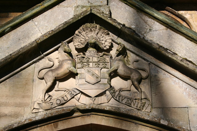 Arms of George Manners (1758-1823), MP for Great Bedwyn and Cambridge, on the south porch gable of St Mary's parish church, Bloxholm, Lincolnshire. He was the eldest son of Lord Robert Manners, M.P. for Kingston-upon-Hull, 8th son of John Manners, 2nd Duke of Rutland[1]